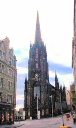 The former Tolbooth Church. This building now houses a restaurant, conference centre and offices.